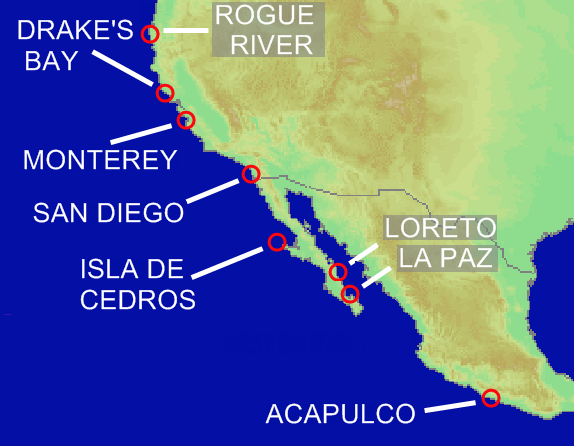 map of sites visited by early European explorers of coastal North America